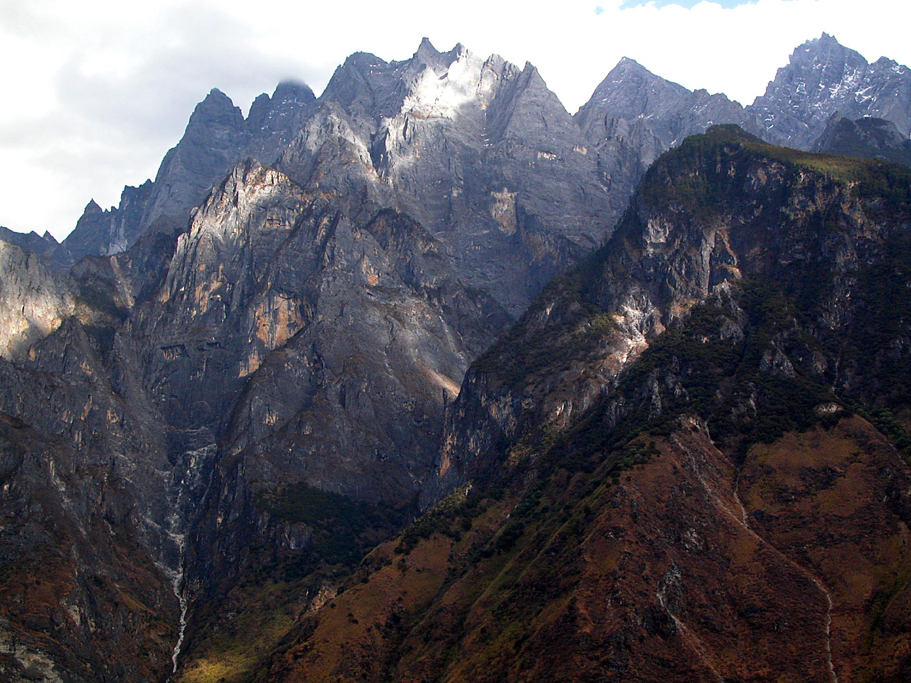 Afternoon light on the jagged grey mountains rising from the Yangzi River gorge, in south-western China's Yunnan ProvinceAfternoon Light